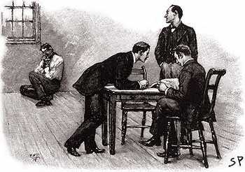 Sherlock Holmes in "The Adventure of the Stockbroker's Clerk", which appeared in The Strand Magazine in March, 1893. Original caption was "GLANCING AT THE HAGGARD FIGURE.